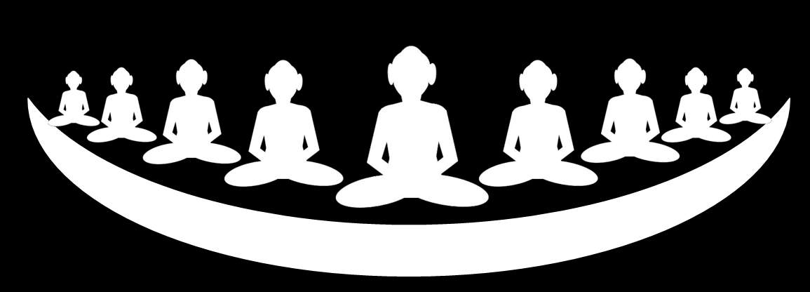 This image depicts Siddha Shila (also known as mukti shila or siddha kshetra) or the abode of liberated beings at the apex of universe as per the Jain cosmology. I have created this image on the basis of artistic impressions that I have seen in various Jain books. Applications that I have used are: autoshapes in excel, Ms Paint and Picassa.